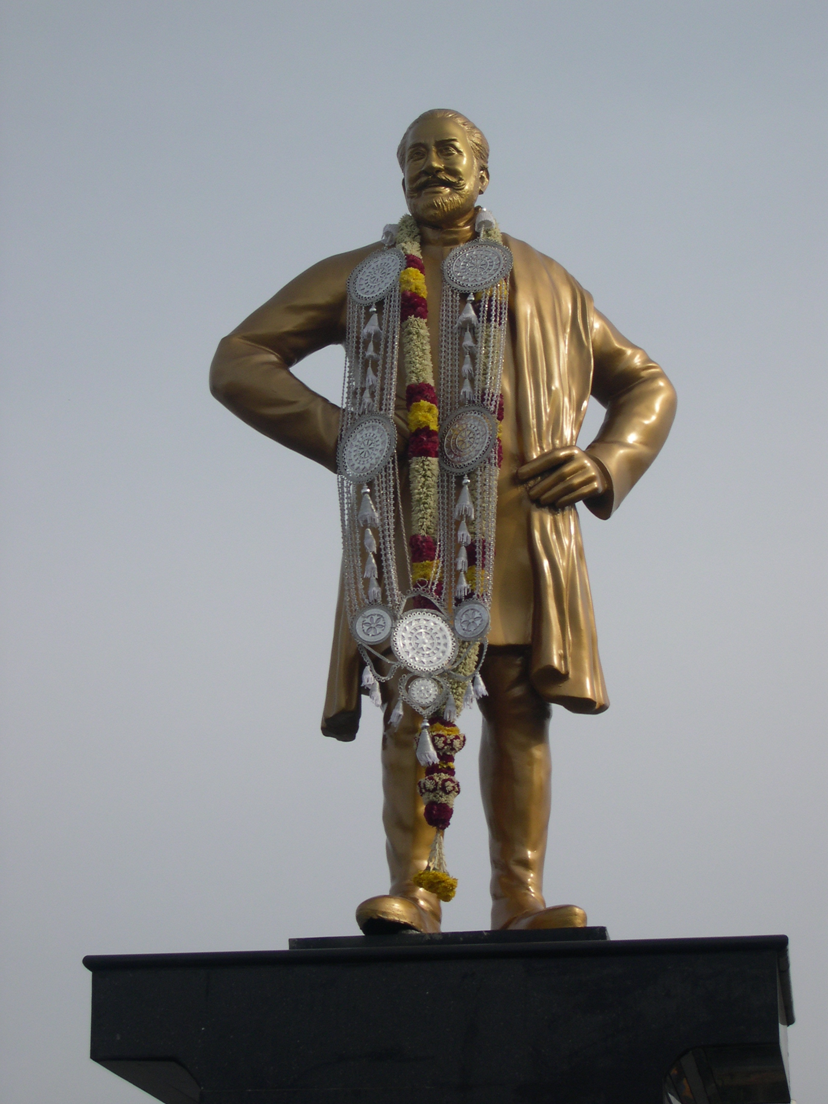 Sivaji Ganesan (October 1, 1927 - July 21, 2001) was a famous Indian actor and politician. His real name was Villupuram Chinnaiahpillai Ganesan.The name 'Sivaji' was given to him by Thanthai Periyar after watching his excellent stage performance as Emperor Shivaji. He is also known as Nadigar Thilagam, Nadippu Chakravarthy (loosely translated "Acting Emperor") and the Marlon Brando of Asian cinema. He was a towering actor who overshadowed all other actors of his period in south Indian cinema. Once Marlon Brando told in an interview that Sivaji can act like him and He can't act like Sivaji. He was the one of the best actor world has ever seen. He has acted in about 300 movies.# In 1962, Ganesan toured the U.S.A, where he was given the honour of being the mayor of Niagara City for one day. He along with the former Indian Prime Minister Jawaharlal Nehru were the only two Indians to be honoured this way. During a visit to the U.S.A in June 1995, Sivaji Ganesan found himself in Columbus, Ohio. Mayor Greg Lashutka named him honorary citizen of Columbus at a special dinner. Awards Won * Best Actor Award, Afro-Asian Film Festival, Cairo, Egypt 1960 * Padma Shri Title, 1966 * Padma Vibhushan Title, 1984 * Chevalier dans Ordre des Arts et des Lettres (Knight of Arts and Letters), 1994 * Dadasaheb Phalke Award, 1996 Crossing legal hurdles, Sivaji Ganesan's statue was unveiled by his long time friend, author of Parasakthi the film which introduced Sivaji Ganesan and brought him fame, the present Chief Minister M Karunanidhi on July 21, 2006 on the Beach Road, Chennai close to Gandhi statue Notes on Sivaji Ganesan - Wikipedia